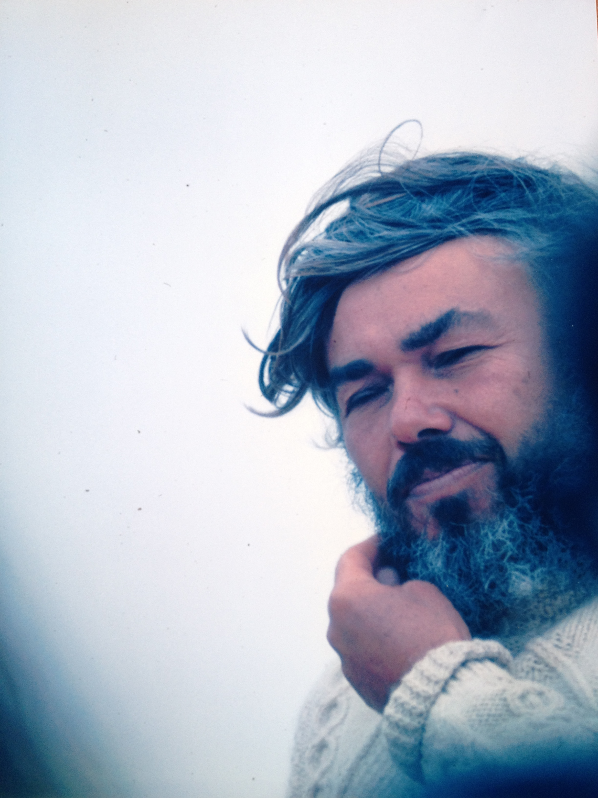 Professor Allen Parducci, UCLA